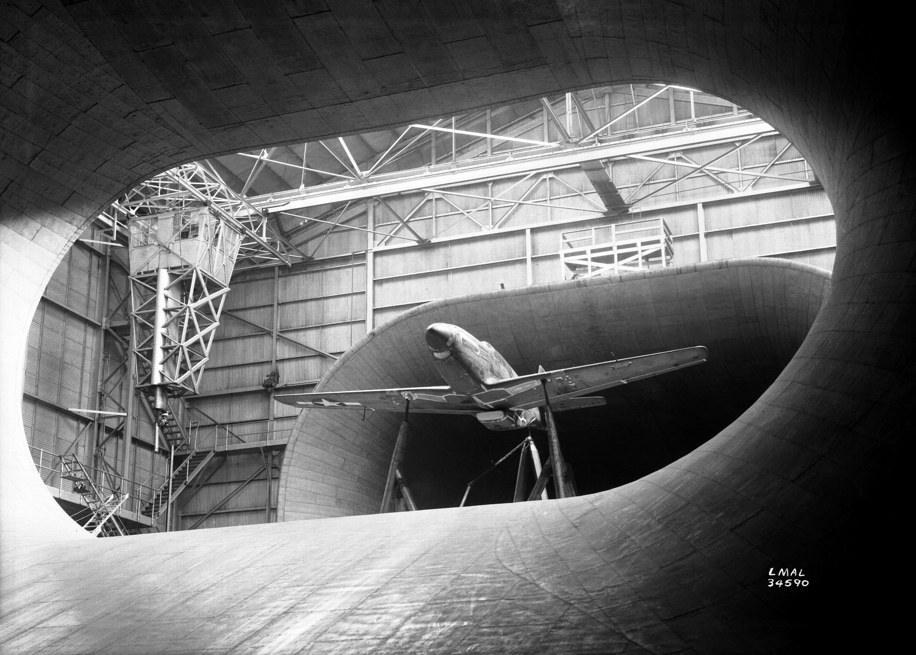 A P-51 Mustang in the Full Scale Tunnel at Langley Aeronautical Laboratory, 1945. Great Images in NASA 1917-1958.